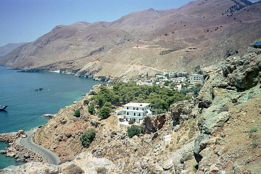 Hora Sfakion in South-Crete